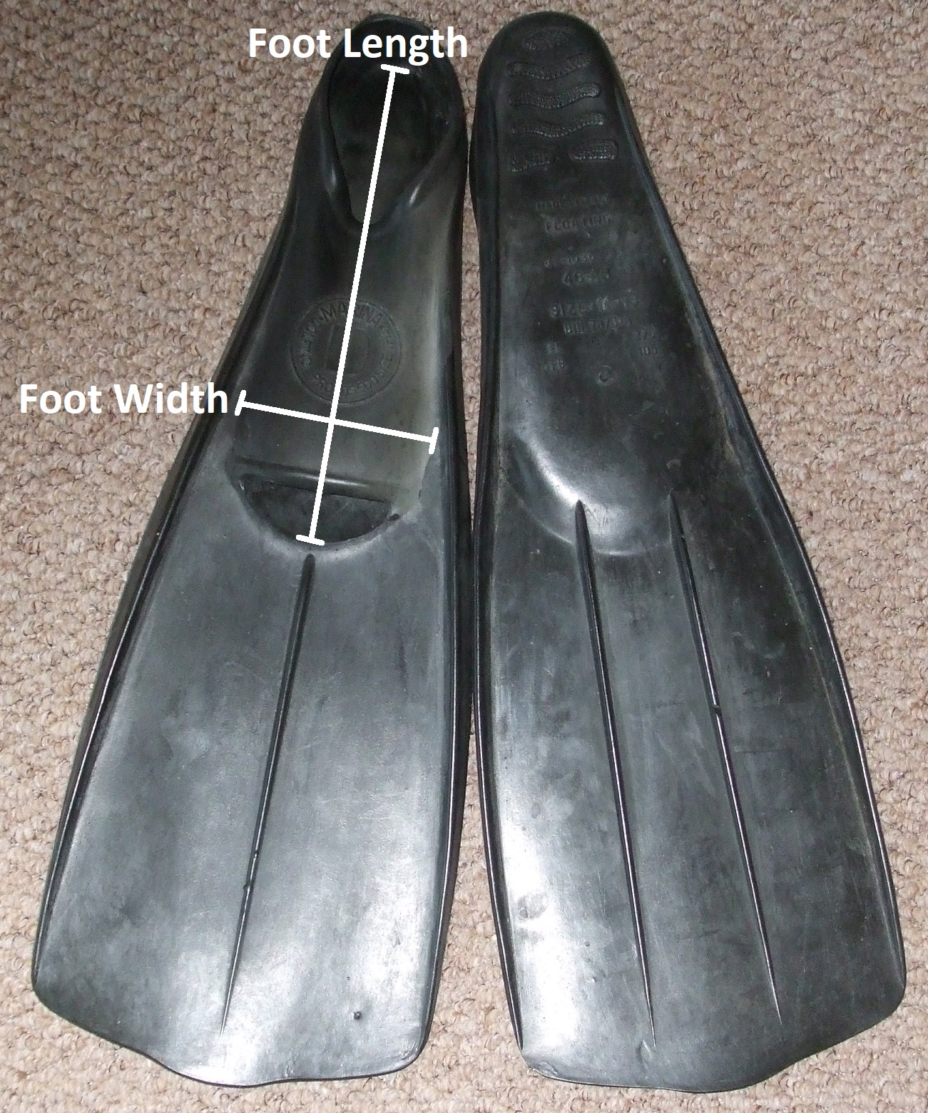 This image of a pair of Marina Dolfino full-foot fins is designed to accompany a forthcoming article about a German standard focusing on the dimensioning of swimming fins.